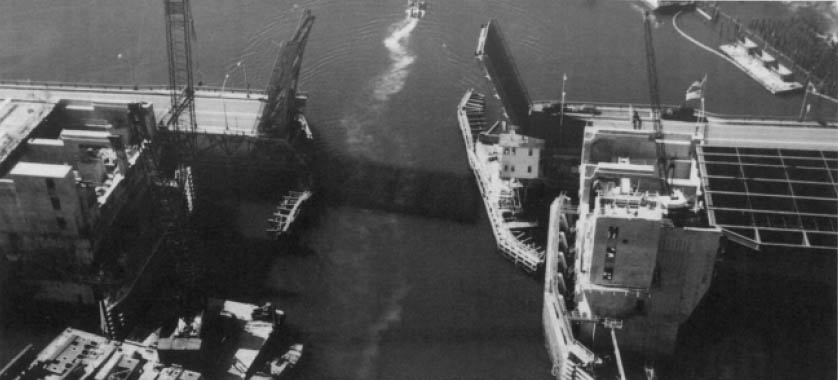 Million Dollar Bridge (Maine), aerial view with under-construction Casco Bay Bridge in foreground.